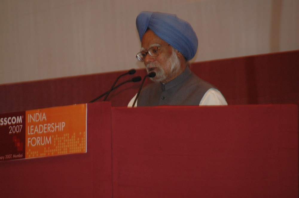 Speaking in Mumbai at the Grand Hyatt hotel on Feb 9, 2007. Nasscom annual conference.